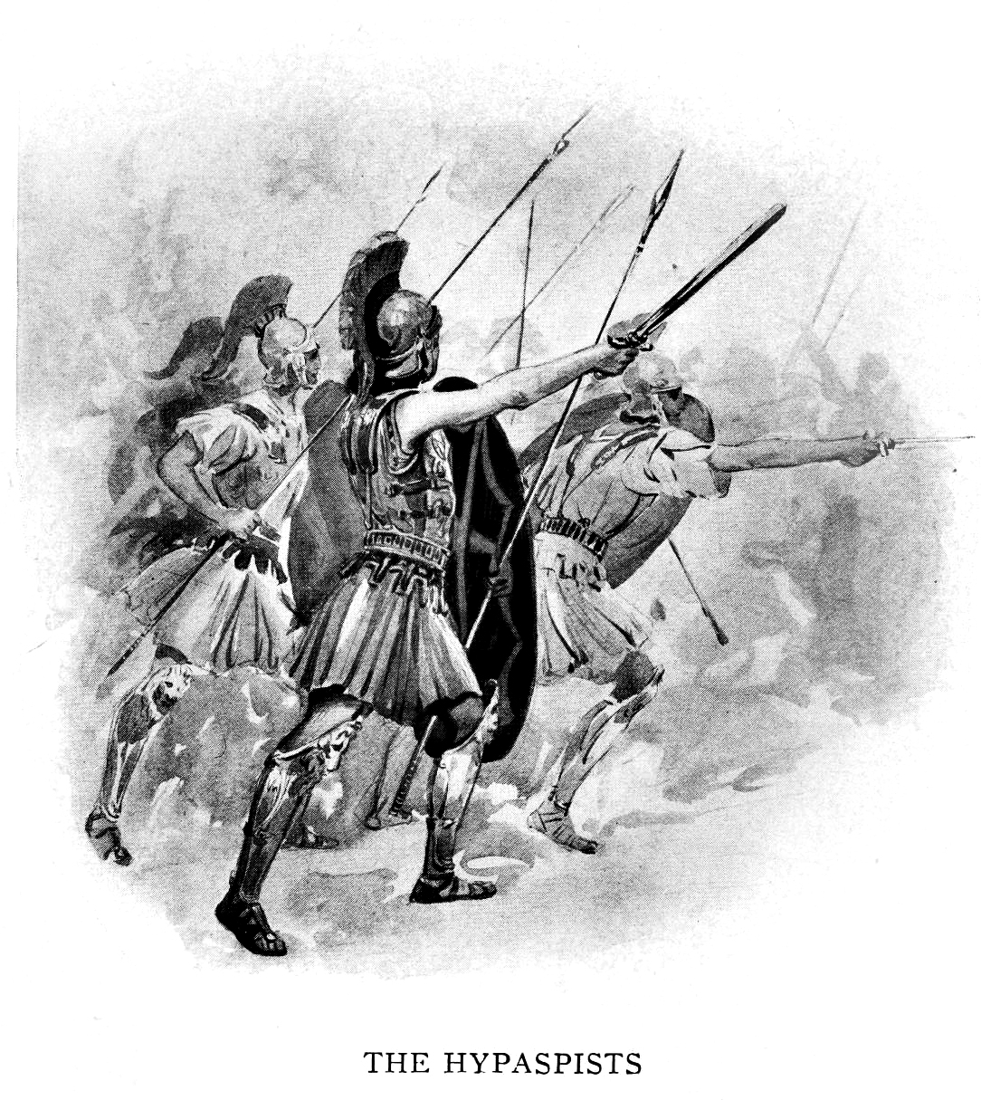 The Hypaspists